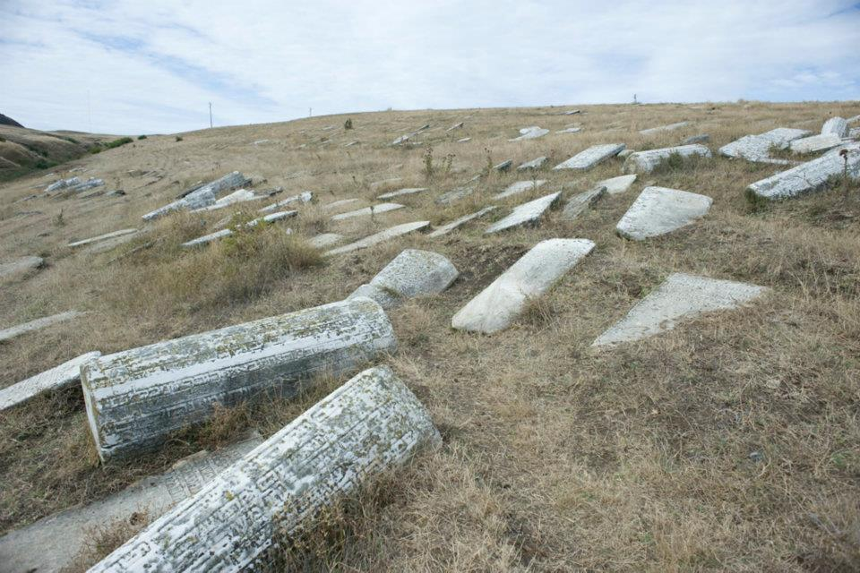 Jewish Cemetery in Karnobat